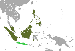 Malayan Civet (Viverra tangalunga) range (dark green - extant, light green - probably extant)